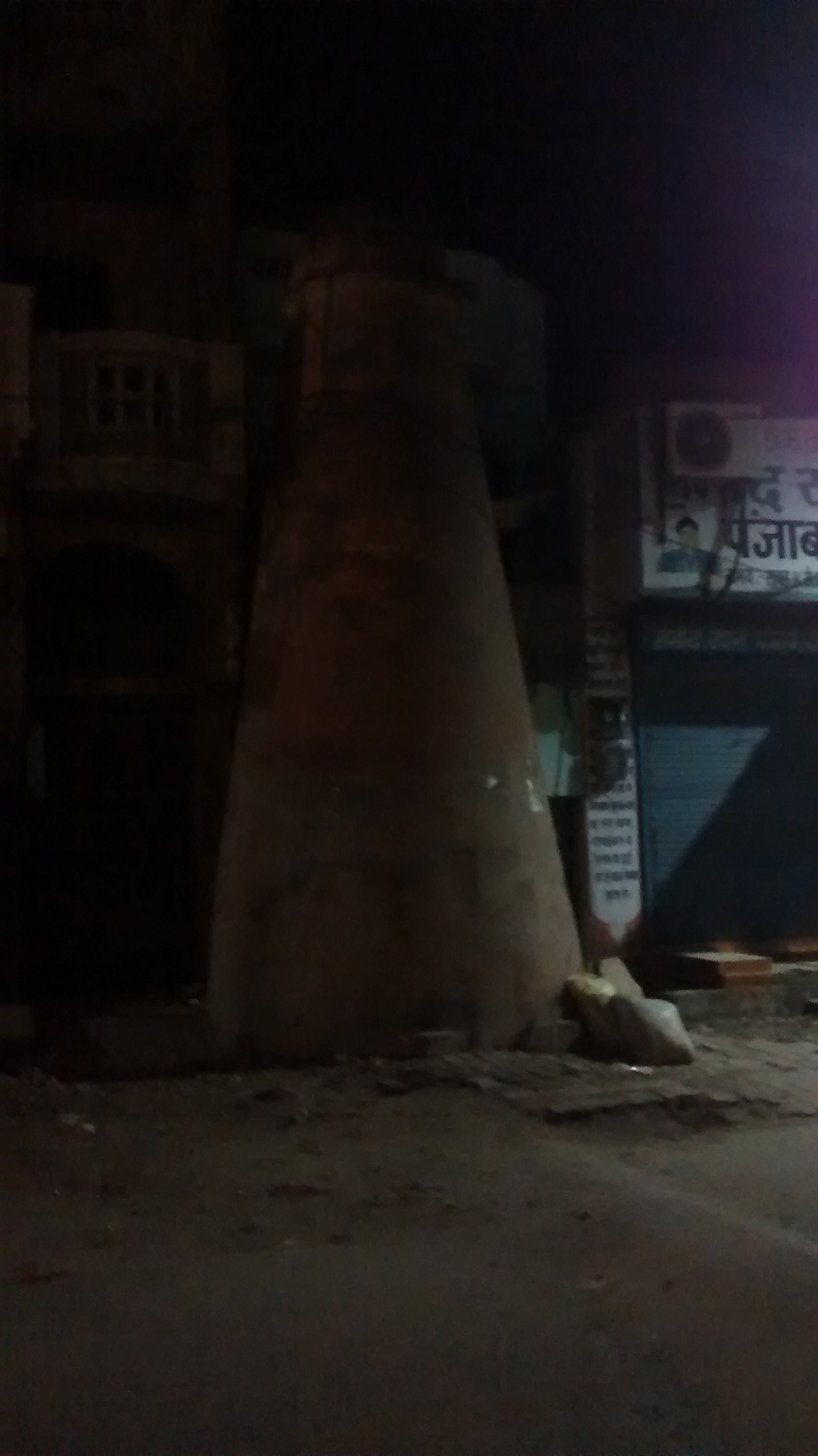 Mughal Kos Minar